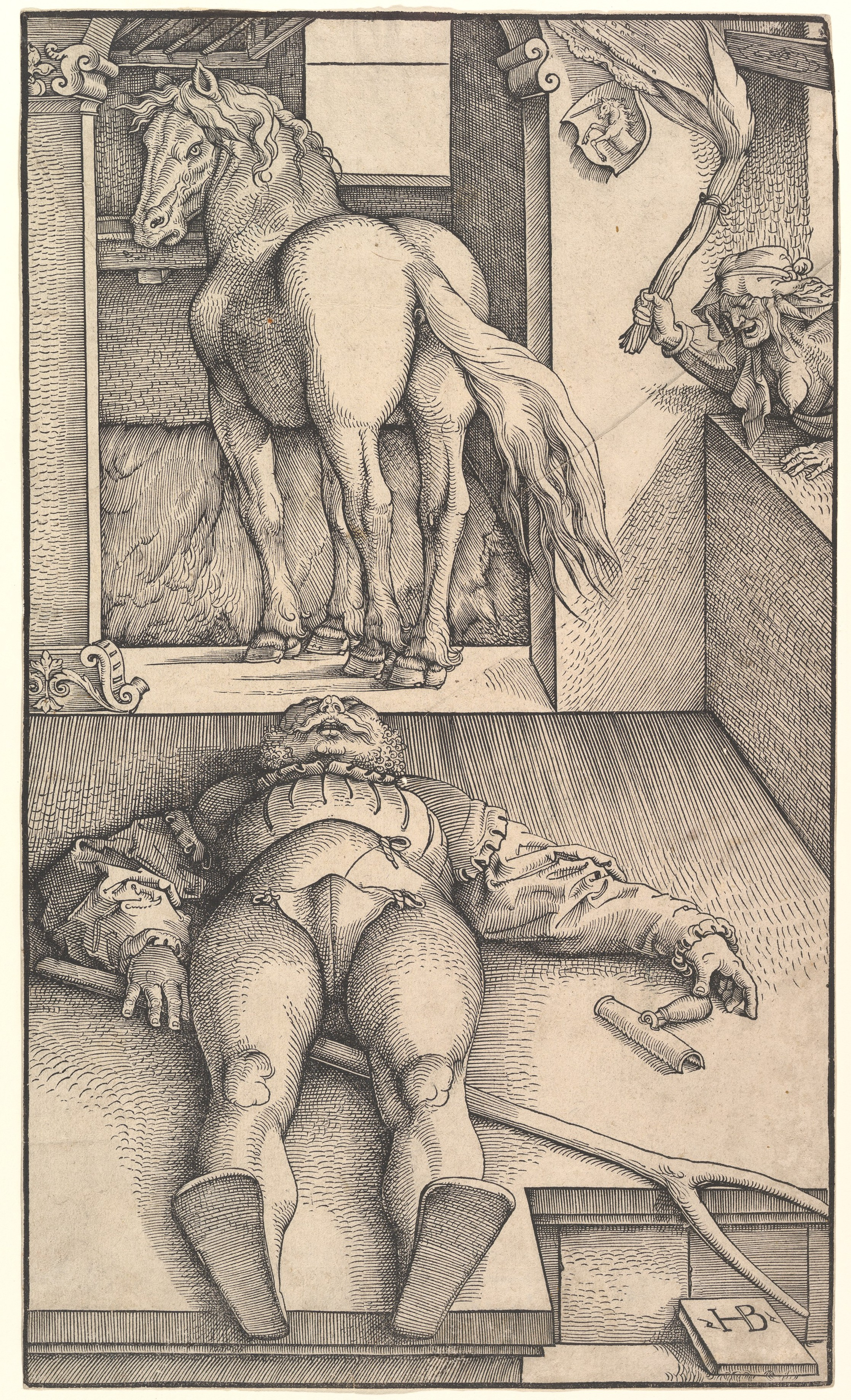 Print; Prints